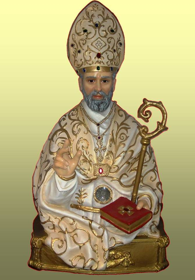 Picture is of Saint Paolino (San Paolino) San Paulinus) di Nola. The statue was constructed in the 1890's in Nola Italy (unknown creator) in painted Paper Mache with a "relic" in the abdomen inside a glass container.